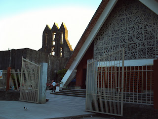 Iglesia de Tantoyuca